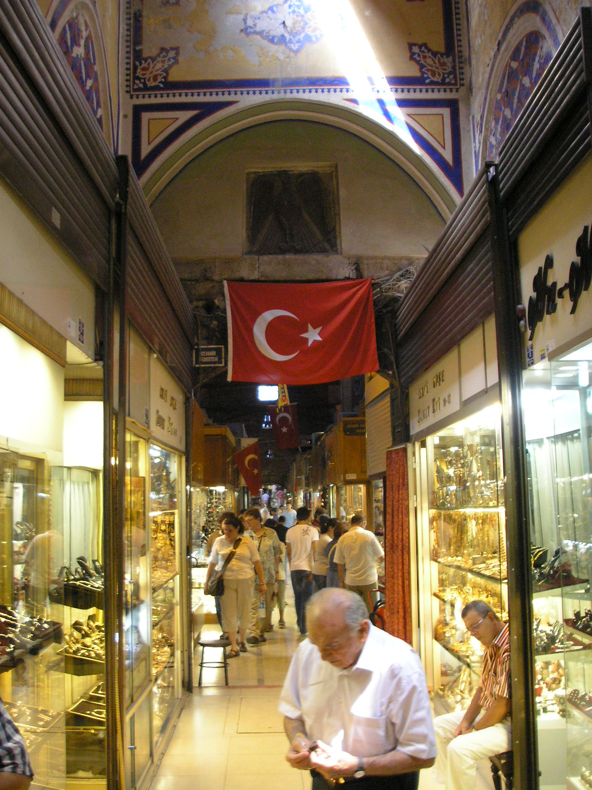 Gate to the İç Bedesten with a byzantine eagle that apparently though dates to the post-byzantine period.